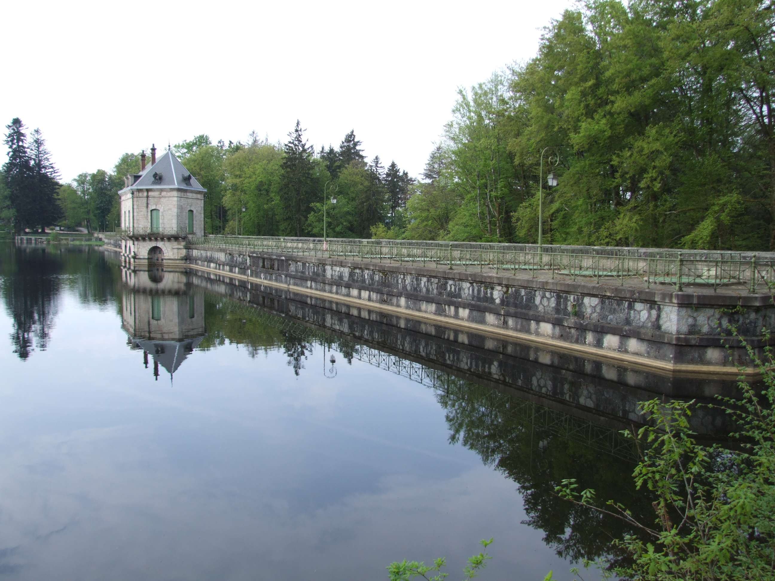 Setton lake, Burgundy, FRANCE